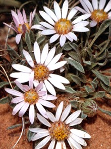 Townsendia incana NPS photo